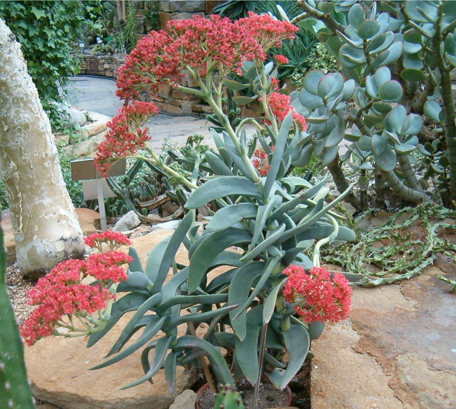 Crassula perfoliata var. minor, formerly Crassula falcata, of South Africa. Location: Botanical Gardens Berlin Habitus, Leaves and Inflorescences